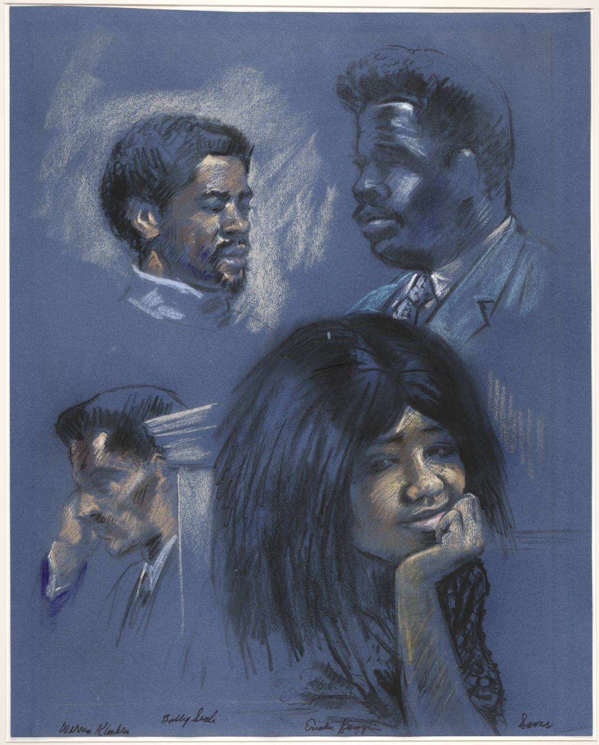 Author/Creator: Date: 1971. Part of: Robert Templeton Drawings and sketches related to the trial of Bobby Seale and Ericka Huggins, New Haven, Connecticut. Physical Description: 1 drawing color ill., oil pastels 62.4 x 50.3 cm. Folder or box number: Box 7 Subjects: Huggins, Ericka. Kimbro, Warren. Seale, Bobby, 1936- Sams, George W., Jr. Black Panther Party. African American political activists. African Americans. Black militant organizations. Black power. Political activists. Trials (Conspiracy) Trials (Kidnapping) Trials (Murder) Connecticut. Superior Court (New Haven County) Genre/Form: Drawings Pastels (Visual works) Cite as: Yale Collection of American Literature, Beinecke Rare Book and Manuscript Library Repository: Beinecke Rare Book & Manuscript Library, Yale University Bibliographic Record Number: 2026861 Call Number: JWJ MSS 33 View our Record: Permalink Flickr data on 2011-08-26: License: CC BY-SA 2.0 User: Beinecke Library